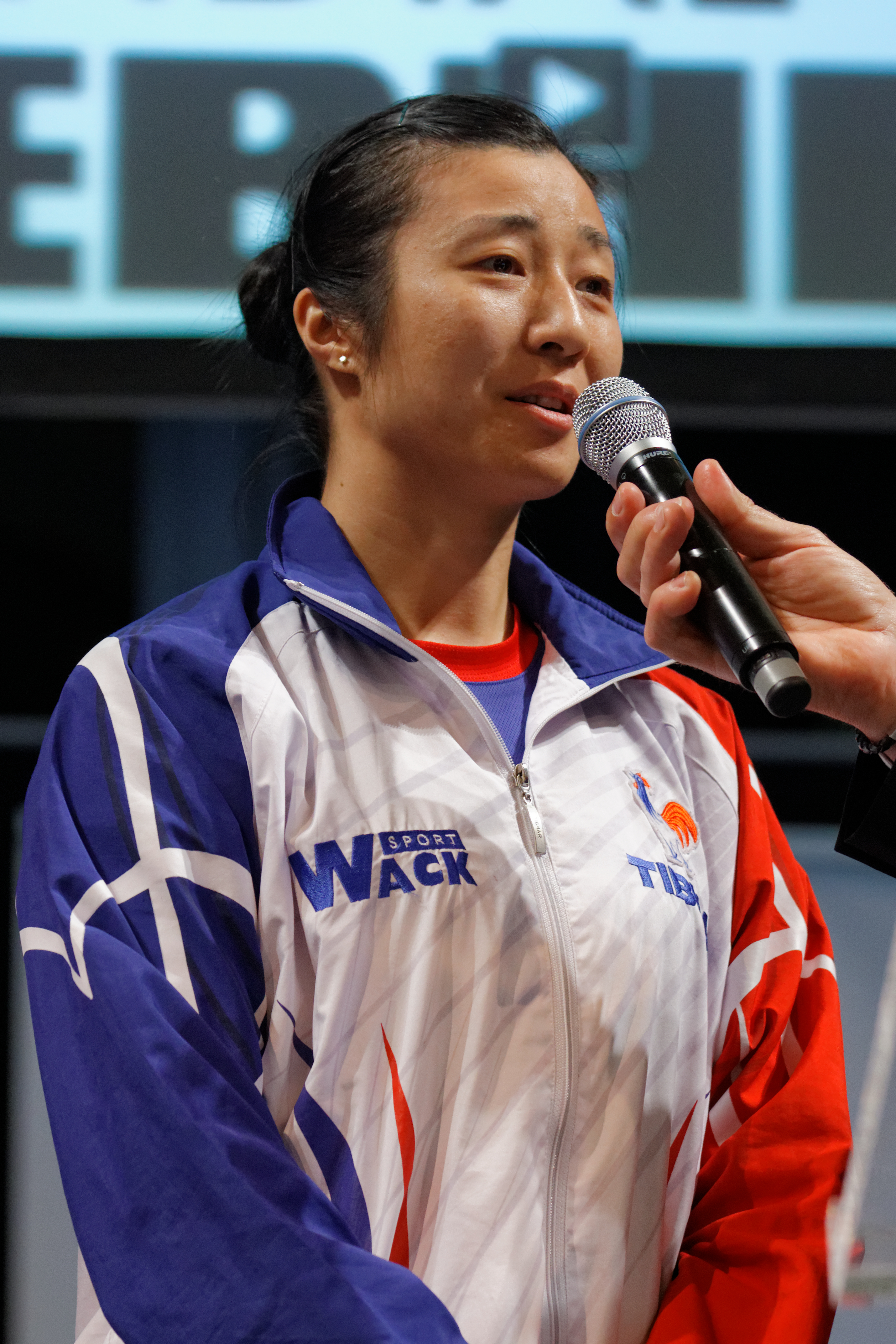 Championnats du monde de tennis de table, Paris. Conférence de presse et tirage au sort.